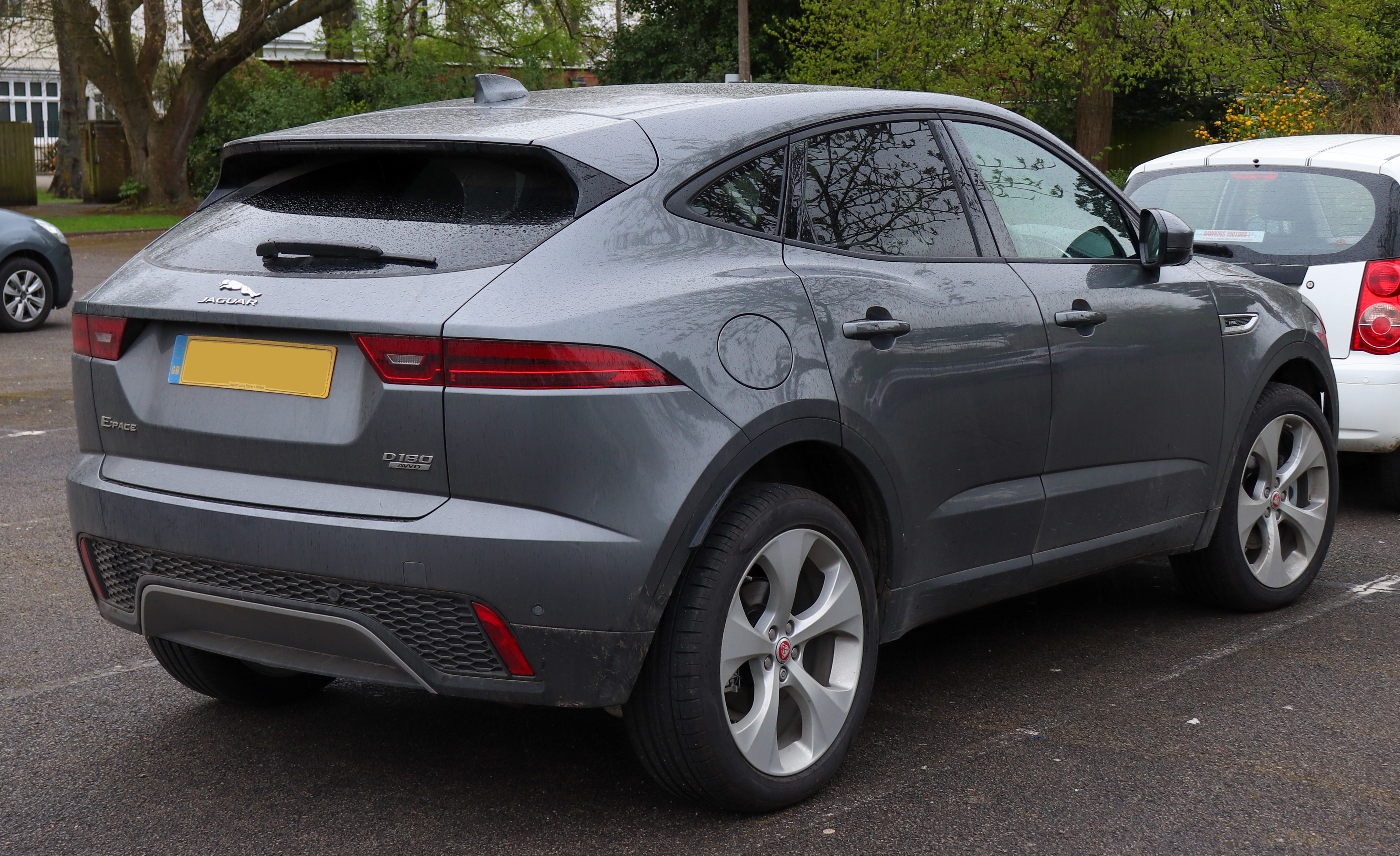 2018 Jaguar E-Pace HSE Diesel Automatic 2.0 Rear Taken in Leamington Spa